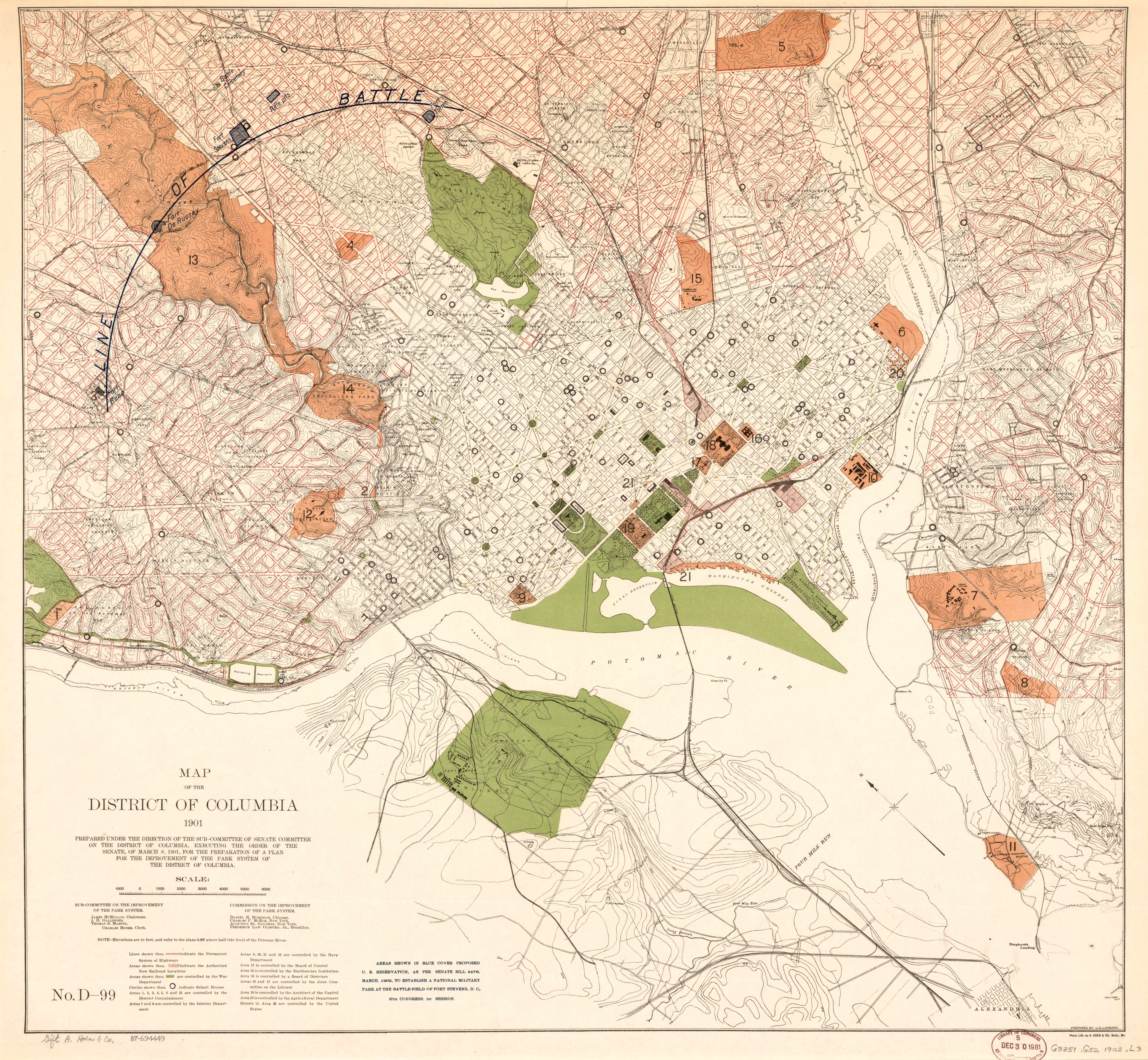 Shows parks, other public lands, schools, and proposed streets. "Areas shown in blue cover proposed U.S. reservation, as per Senate bill 4476, March 1902, to establish a national military park at the battle-field of Fort Stevens, D.C., 57th Congress, 1st session." Relief shown by contours. Oriented with north toward the upper left. Includes note and list of commissioners. "No. D--99." Available also through the Library of Congress Web site as a raster image. DCP 2 copies